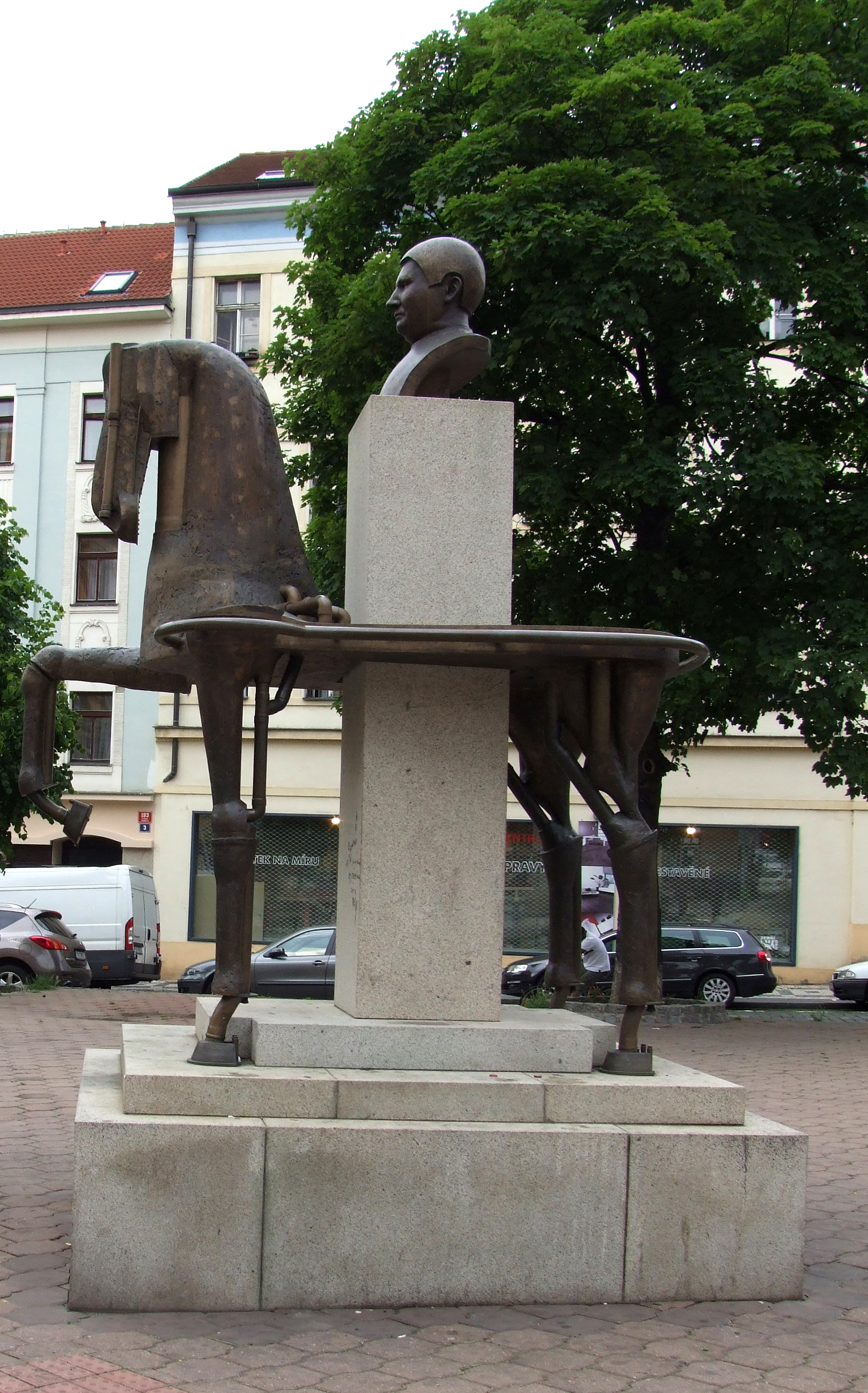 Statue of Jaroslav Hašek, Žižkov, Prague